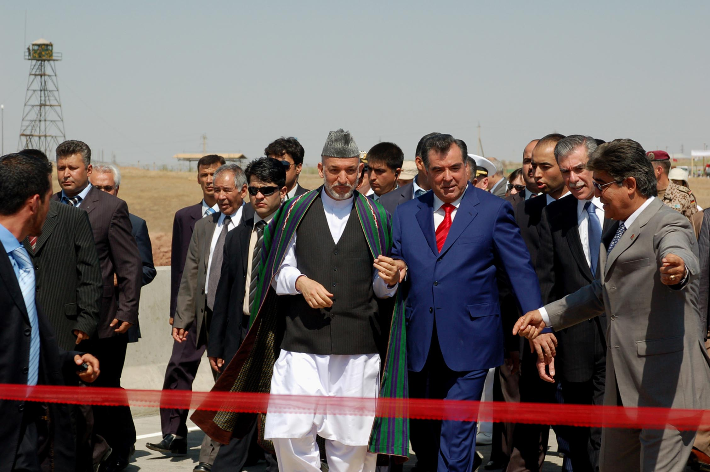 Afghanistan President Hamid Karzai, left, Tajikistan President Emomali Rahmonov, center, U. S. Secretary of Commerce Honorable Carlos M. Gutierrez, right, prepare to perform a ribbon-cutting on the newest bridge connecting Afghanistan and Tajikistan Aug. 26. (U.S. Army photo/Master Sgt. Mark W. Rodgers)